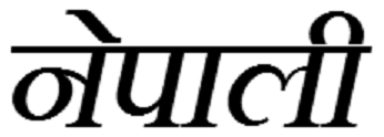 Word "Nepaali" in Devanagari Script.